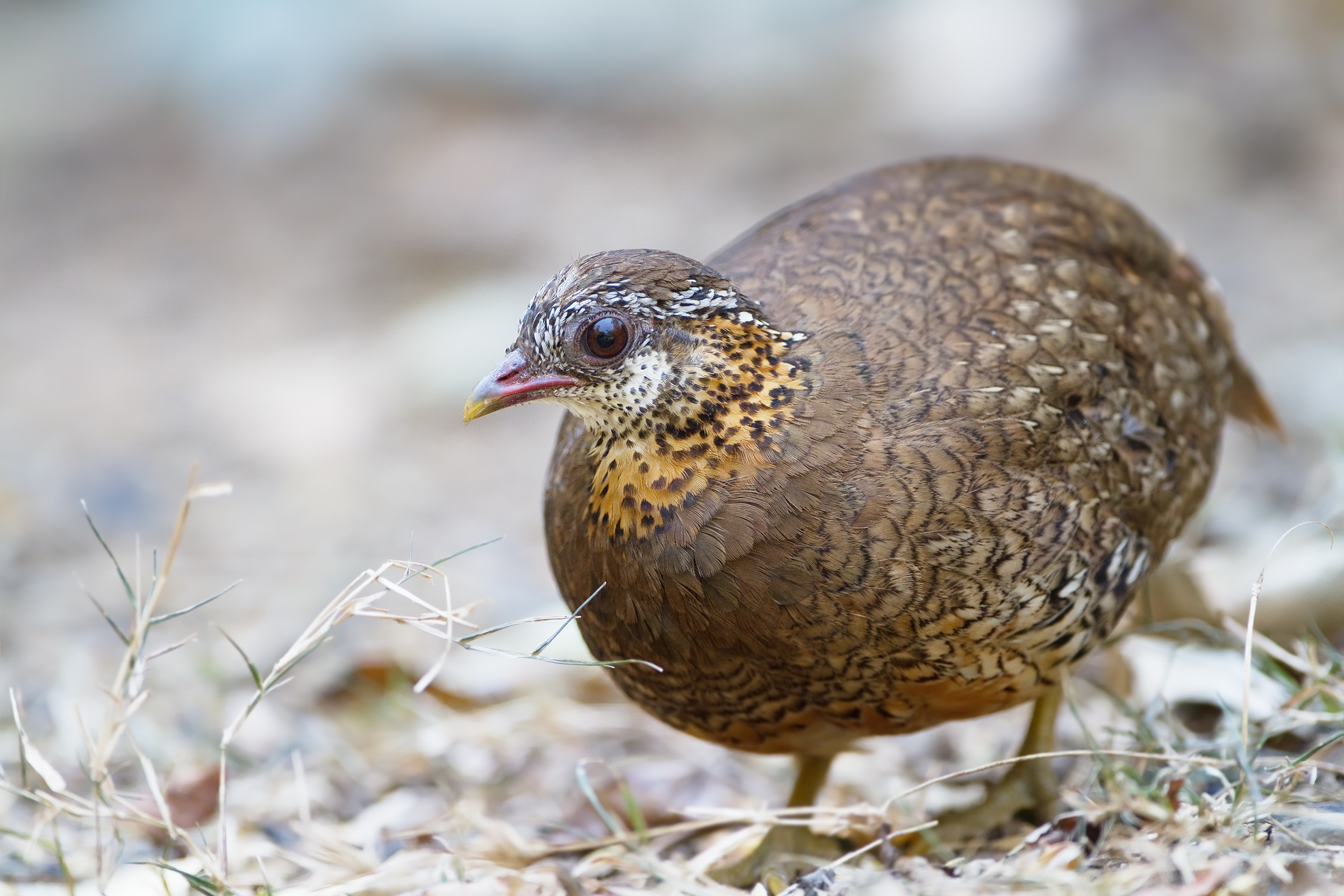 Scaly-breasted Partridge (Arborophila chloropus), Song Phi Nong, Kaeng Krachan, Phetchaburi, Thailand